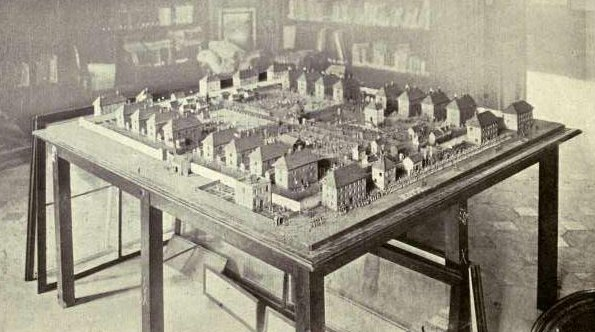 Model of Norman Cross prison in the Musée de l'Armée, Paris. Made by M. Foulley who was a prisoner of war at Norman Cross for 5 years and three months.